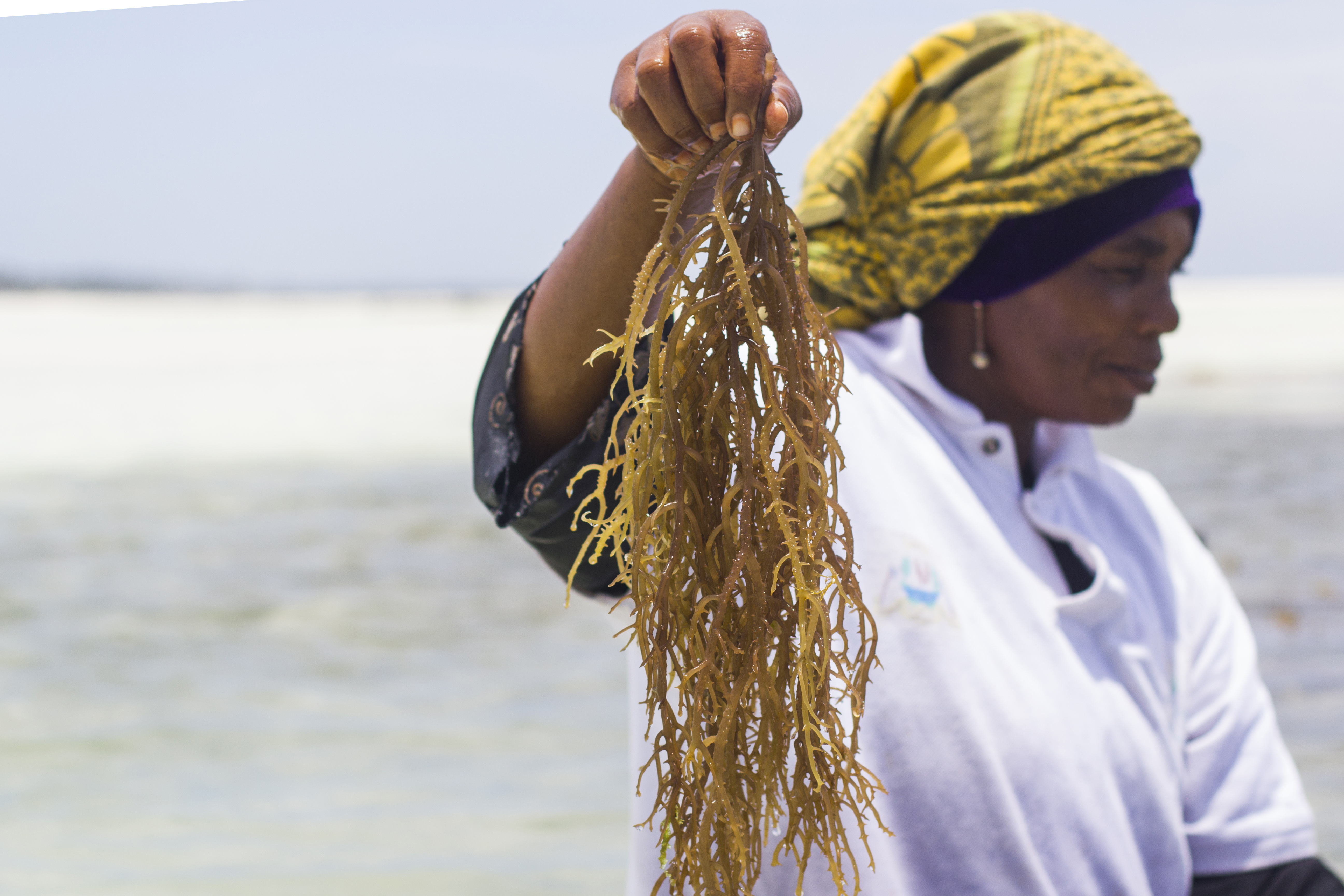 Mwanaisha holds up a healthy clump of seaweed. Then she holds up seaweed the farmers won't be able to use. A hard white substance grows on it - ice-ice disease, caused by higher ocean temperatures and intense sunlight. This is an image of "African people at work" from Tanzania